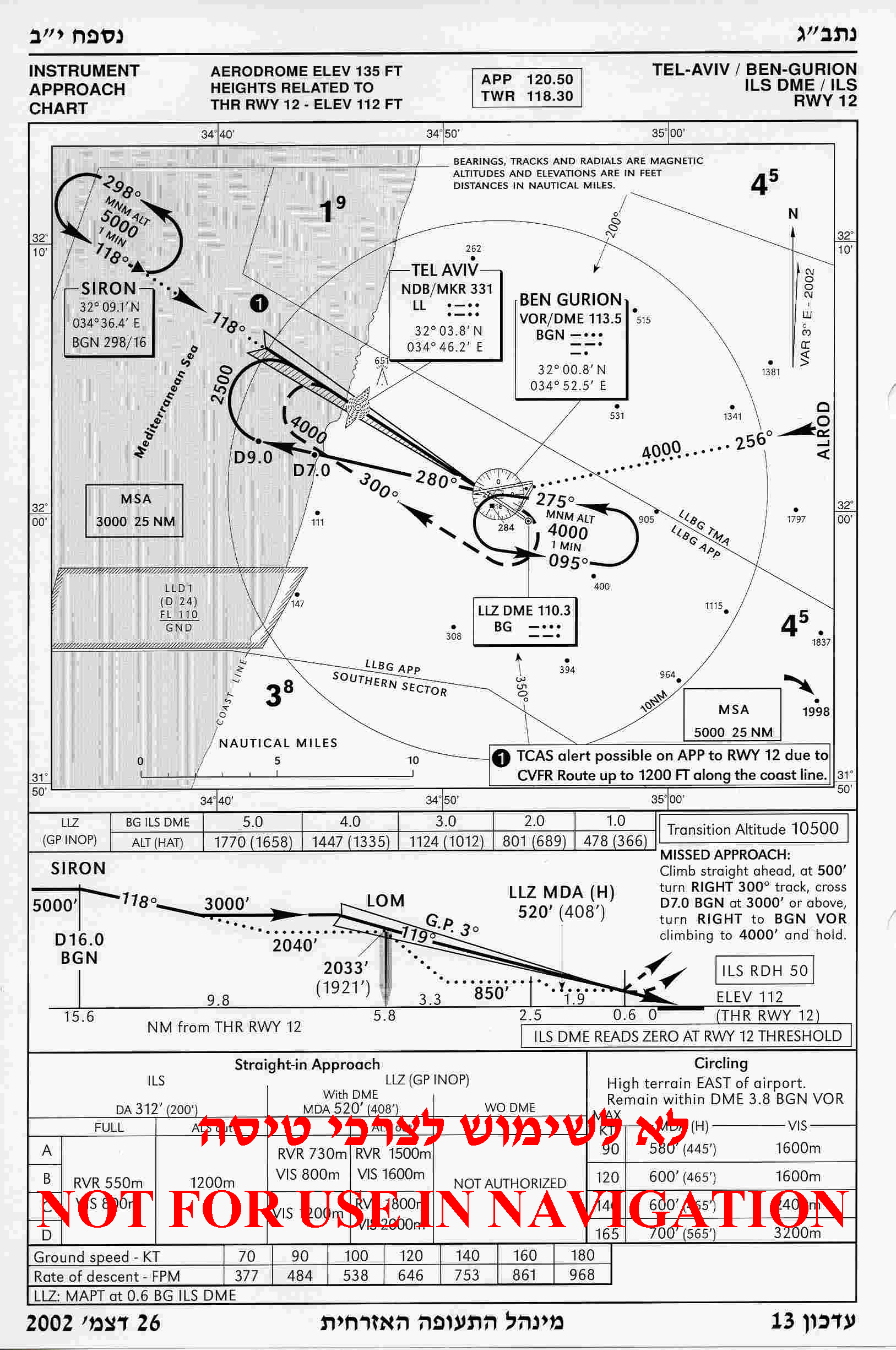 Ben-Gurion Airport (Israel) Instrument approach chart for RWY 12